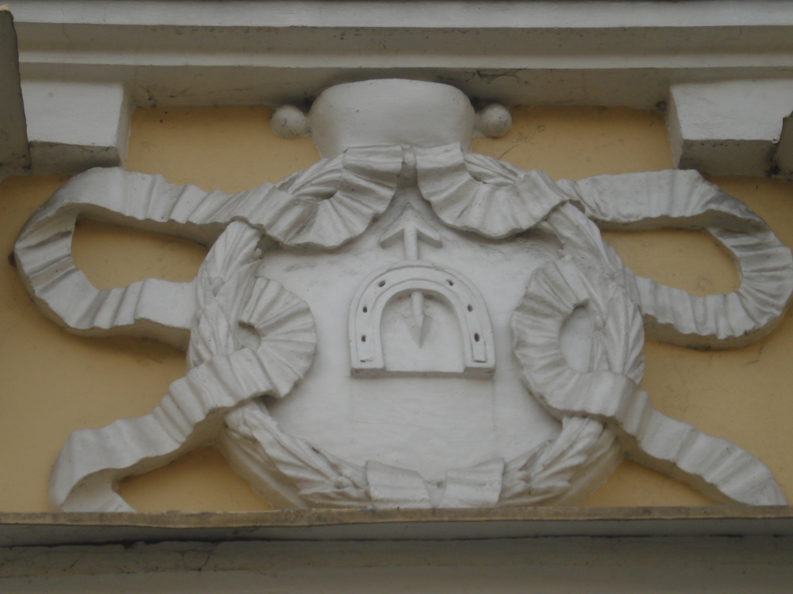 Brzostowski Palace in Vilnius, Universiteto g. 2. Relief with the coat of arms by Nagórski family